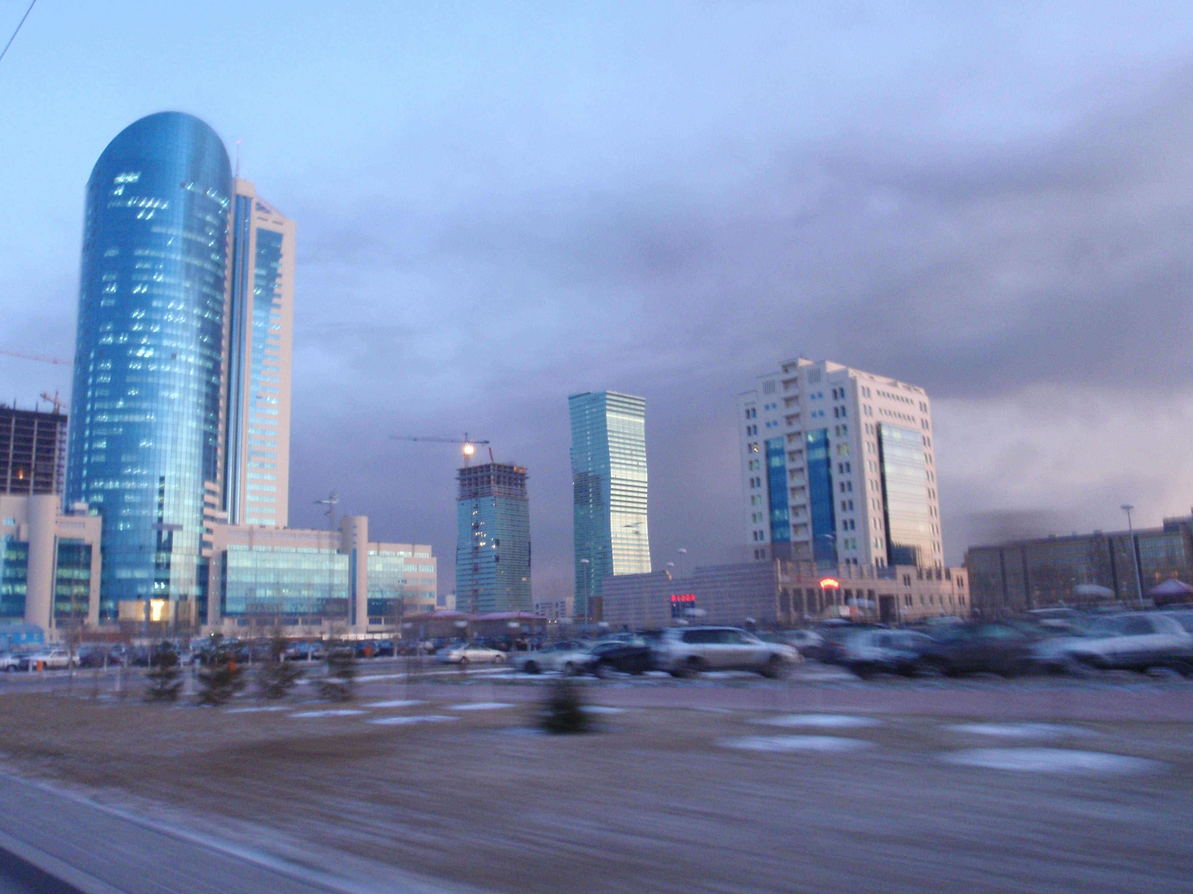 Astana in Kazakhstan